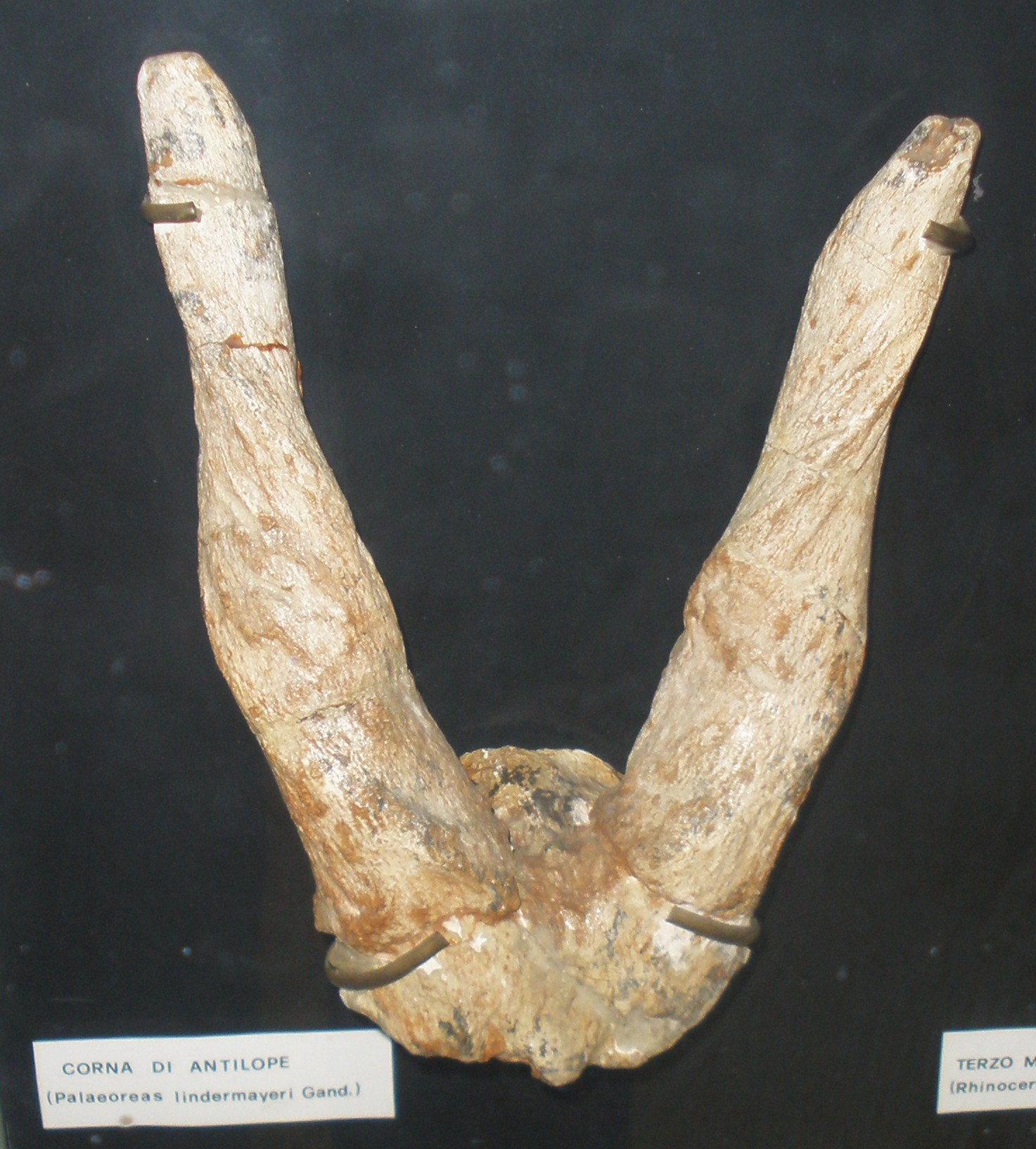 Fossil of Palaeoreas lindermayeri, an extinct mammal